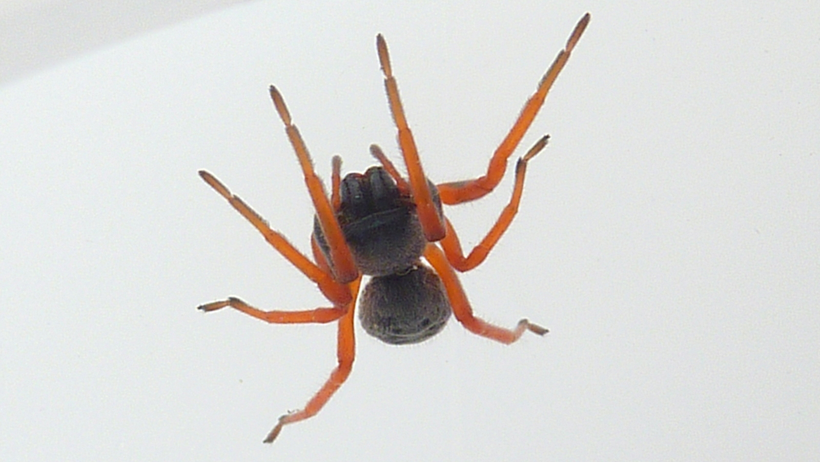 Trachelopachys gracilis (Keyserling, 1891), female